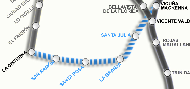 Mapa de la Línea 4A del Metro de Santiago de Chile Map of the Line 4A of Santiago de Chile Metro Creado por B1mbo, adaptado por Antoine Created by B1mbo, adapted by Antoine